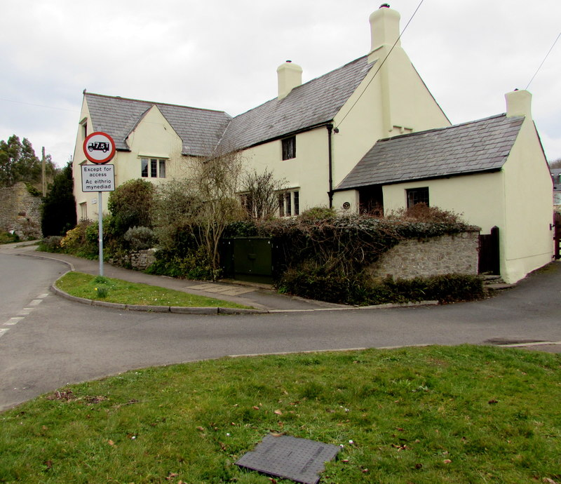 Manor Farmhouse and Manor Cottage, Crick Road, Portskewett, Monmouthshire